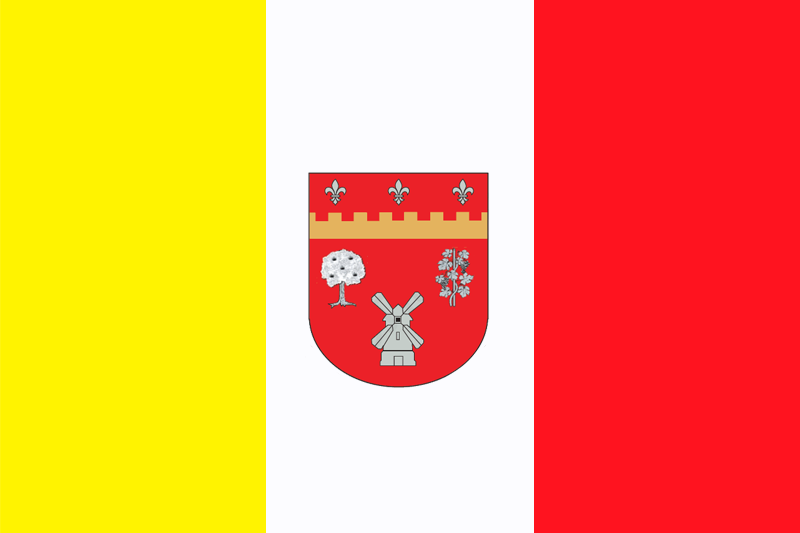 Flag of Bоlhrad Raion